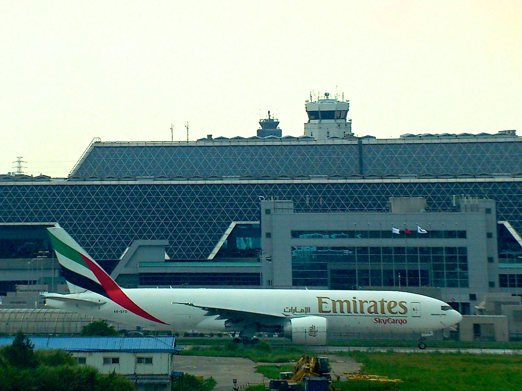 Emirates Sky Cargo Boeing 777F